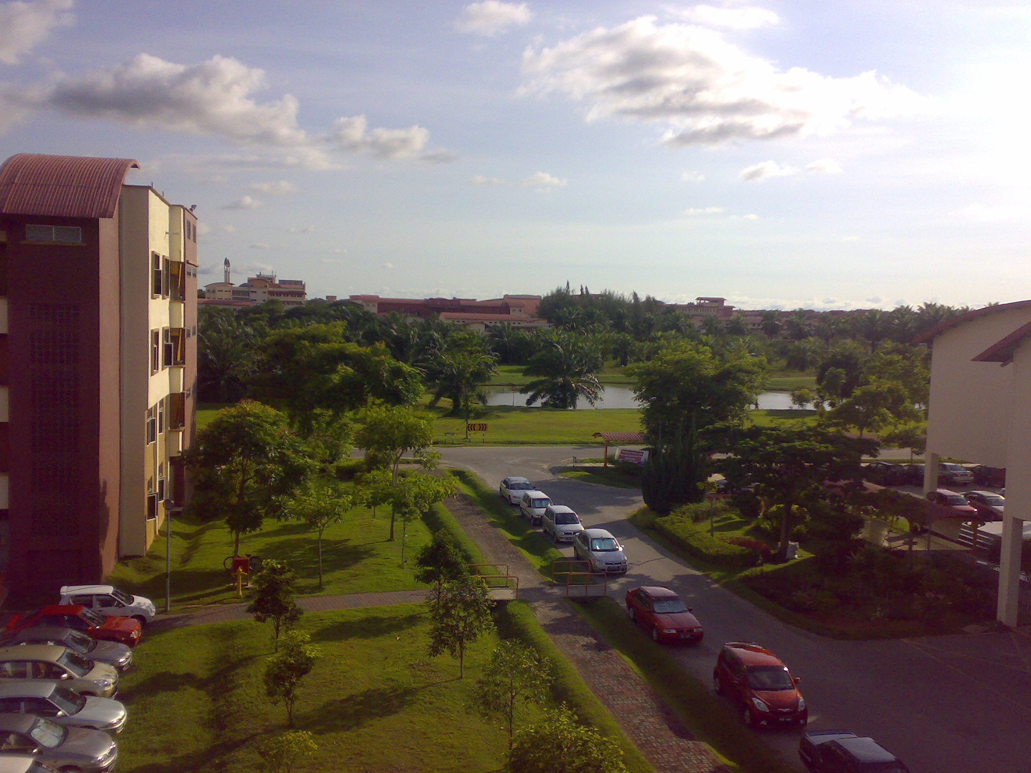 Usm Nibong Tebal